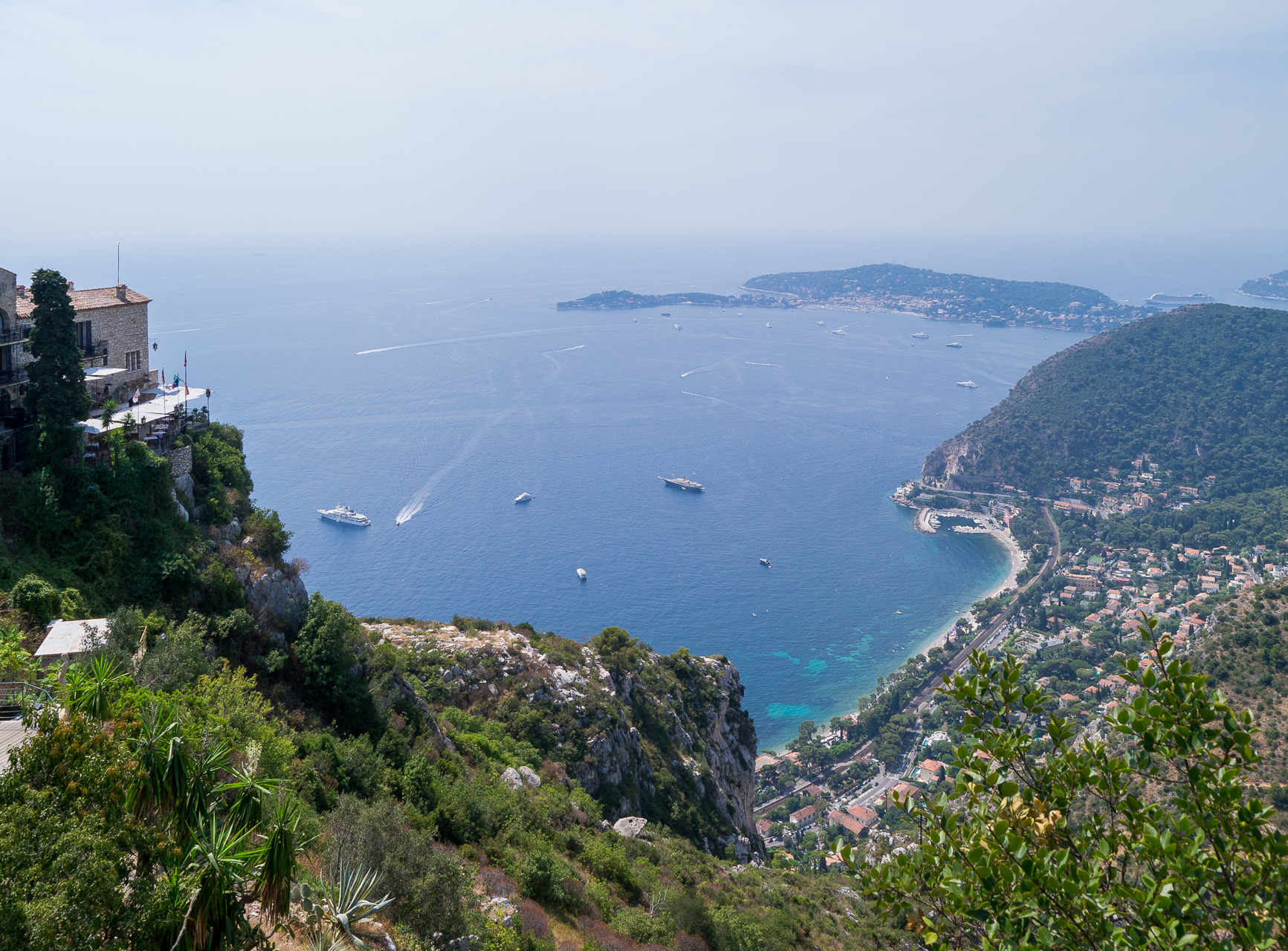 Mediterranean coast / Eze, France